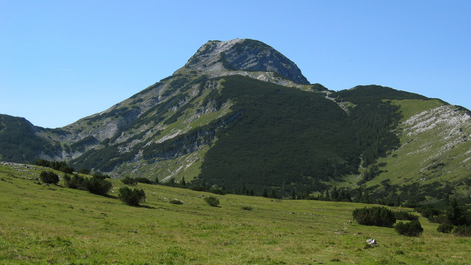 The highest peak, named Hochstadl, of the mountain Kräuterin, in the Ybbstaler Alpen, Austria - seen from northeast.